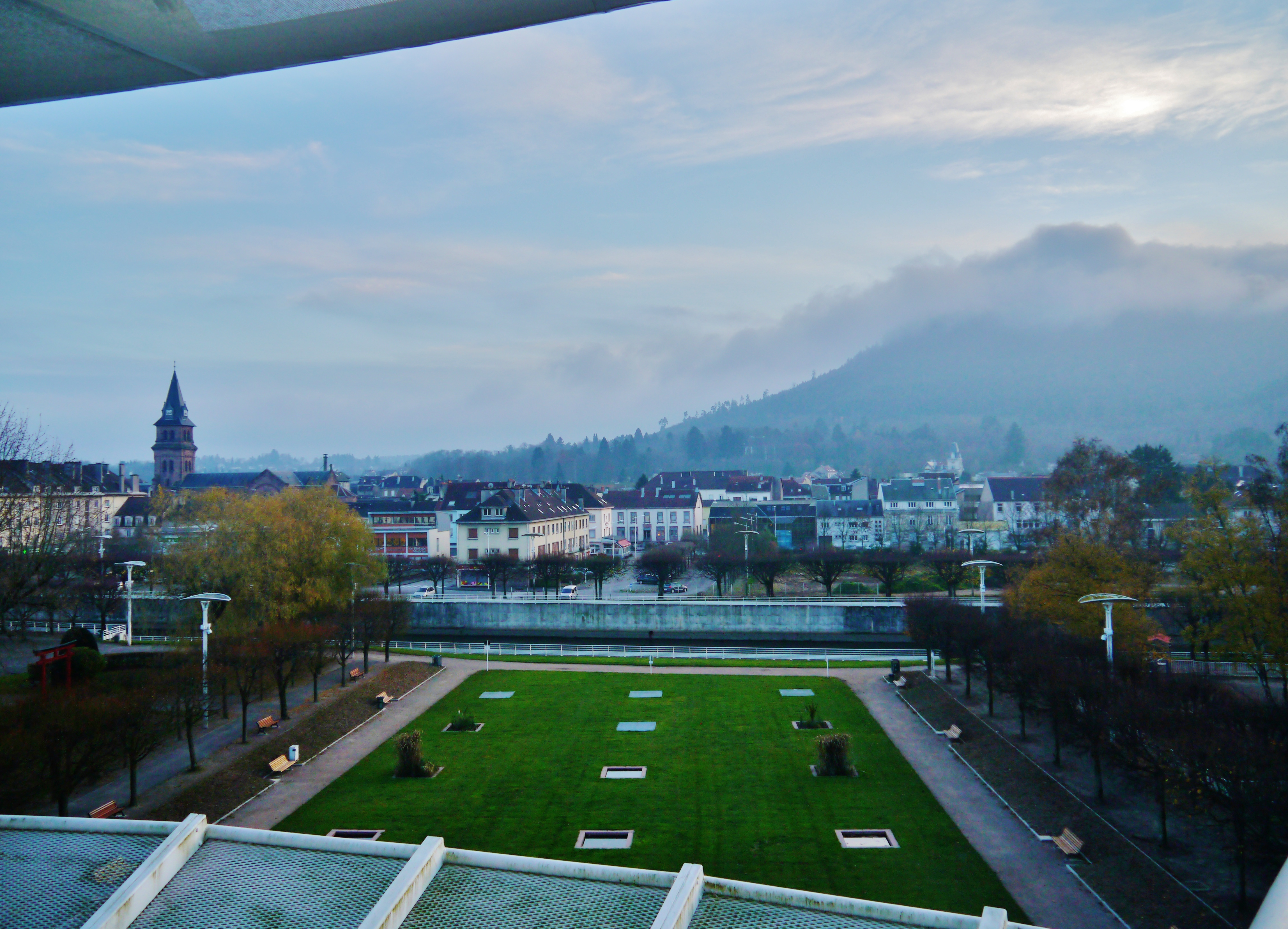 View from the Liberty Tower, Saint-Sié-des-Vosges, Lorraine, France